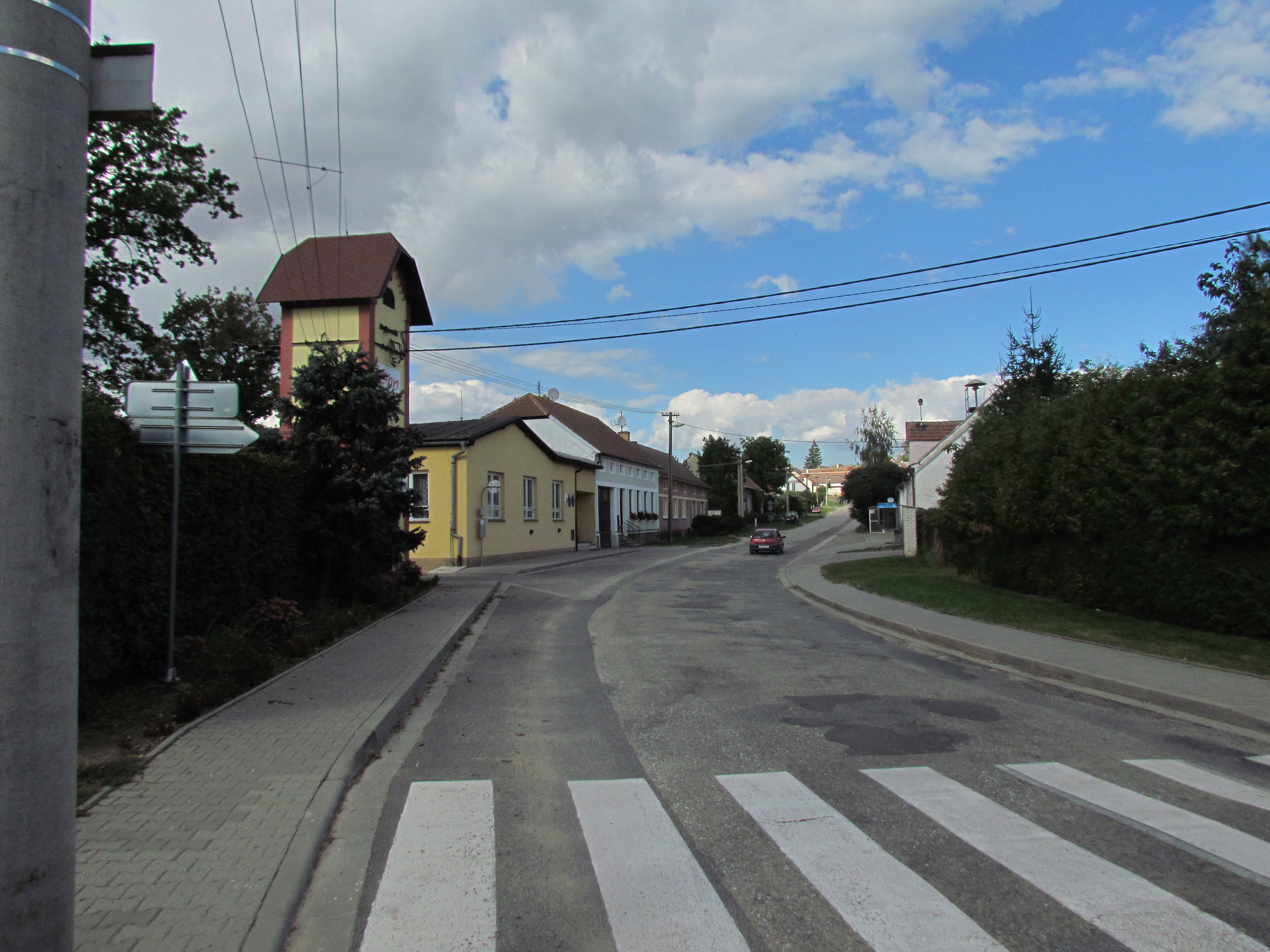 Center of Blatnice, Třebíč District.